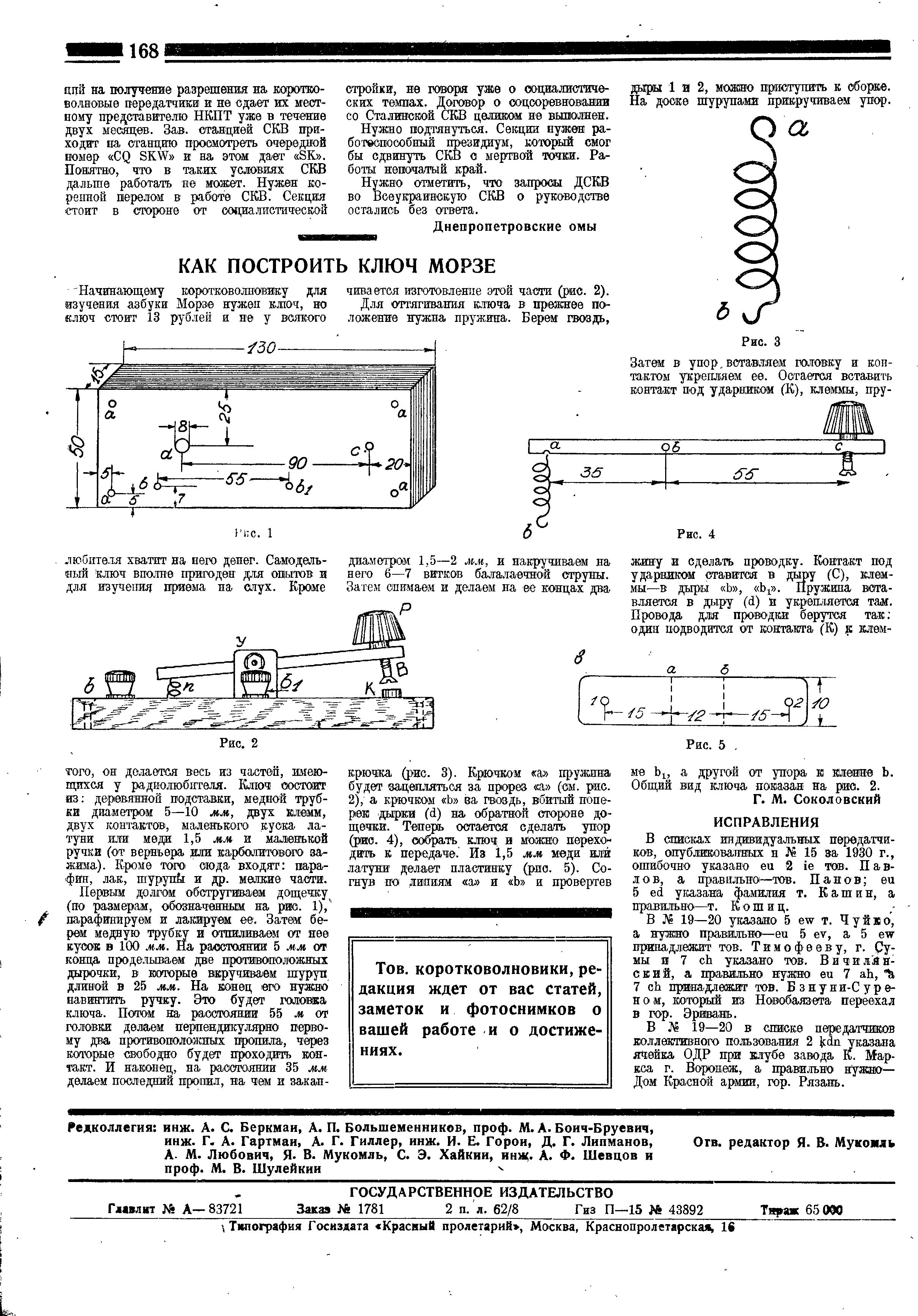 How To Make Morse Key by G. M. Sokolovsky, Radiofront magazine, 1930